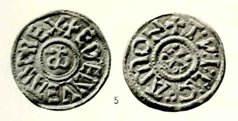 Obverse and reverse of a coin from the reign of the East Anglian king Æthelweard, image: accompanying text